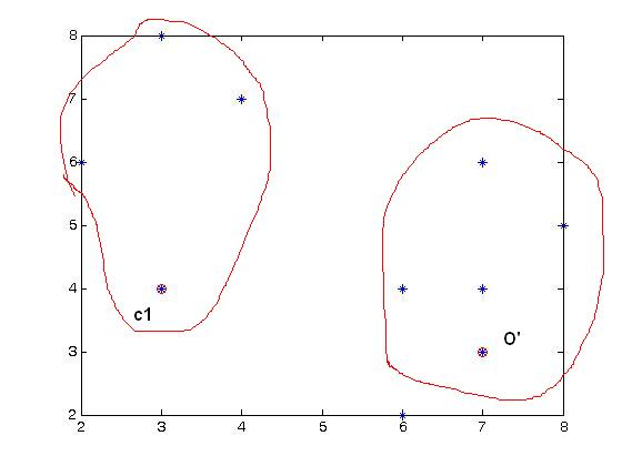 Figure 1.3 – clusters after step 2.